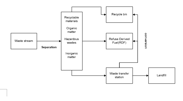 this diagram is a simple flowsheet of waste stream treatment flow